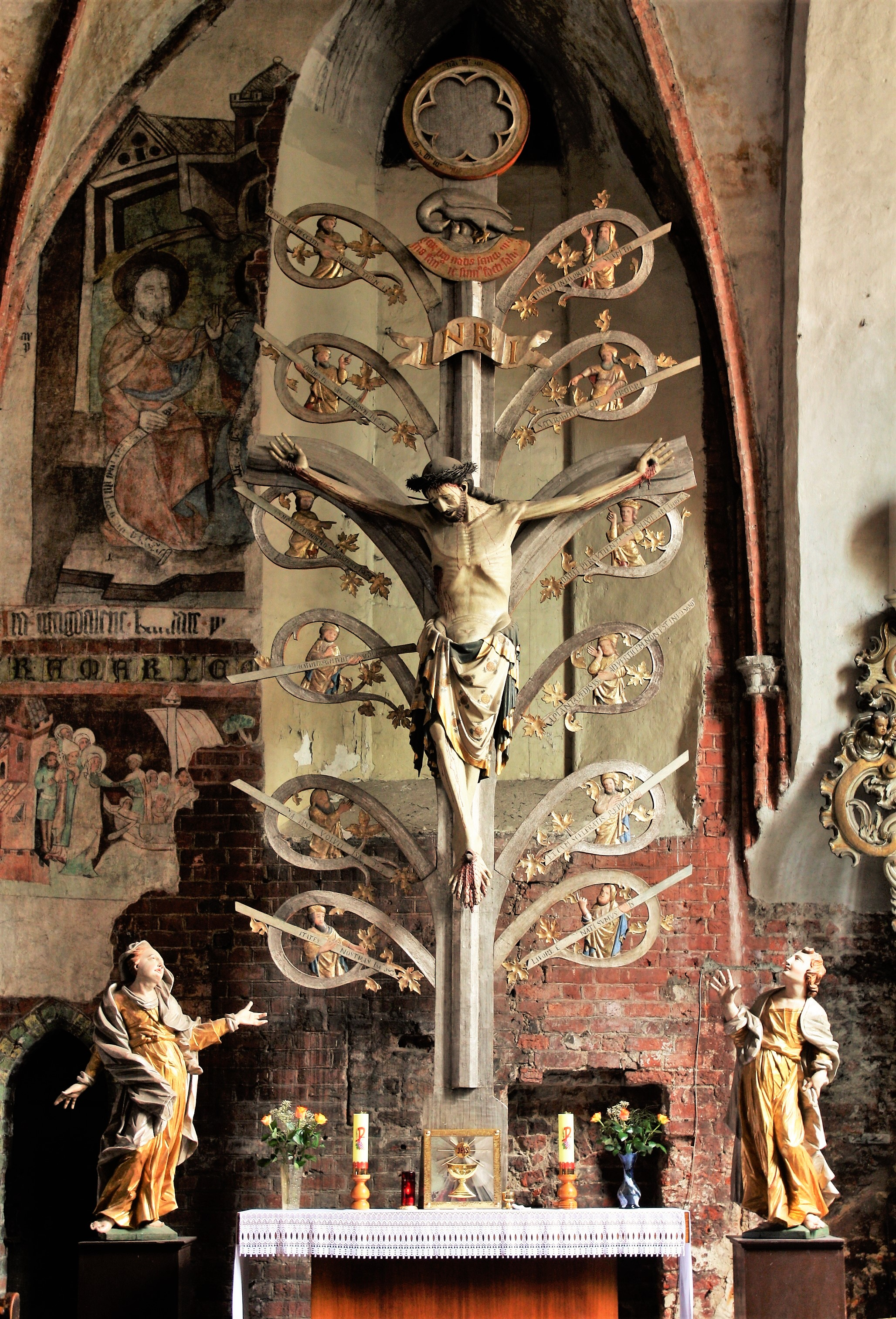 Toruń, St James Church, Gothic Mystic Crucifix